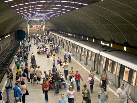 Train in station